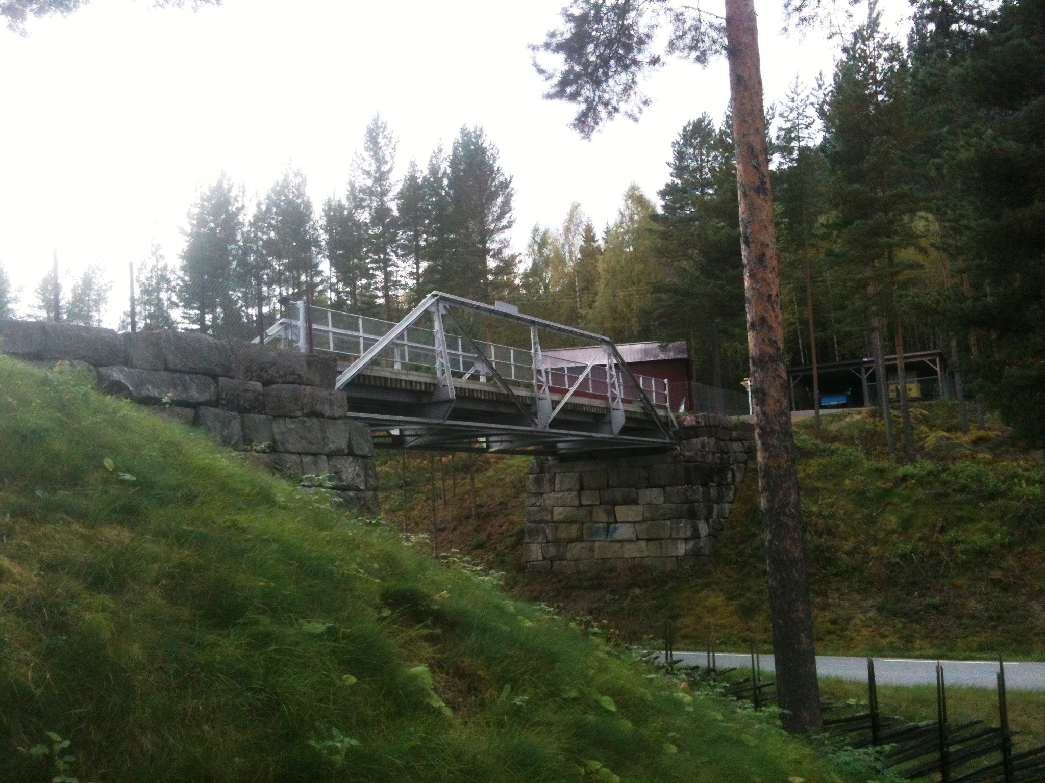 Exhibit at the Norwegian Road Museum (Norsk Veimuseum), by Hunderfossen in Lillehammer, Norway.